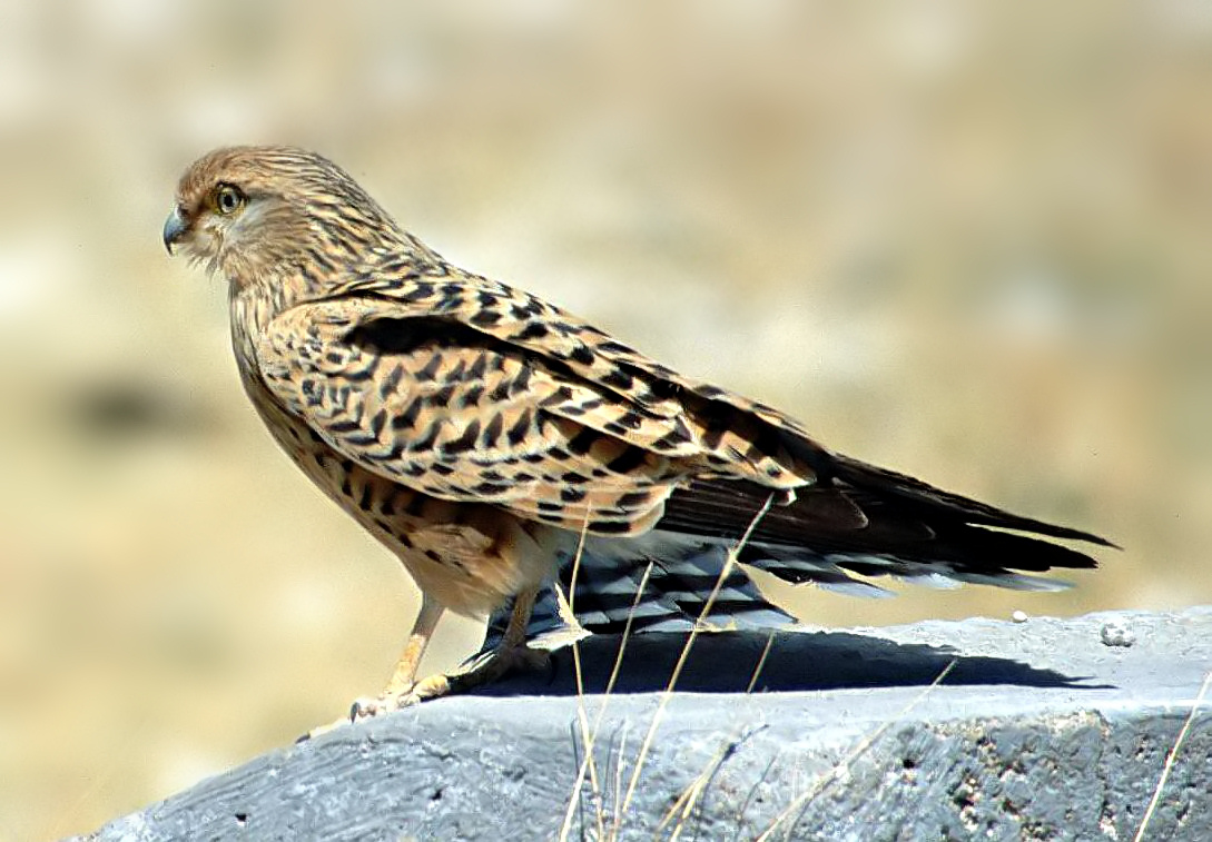 Greater Kestrel (Falco rupicoloides), Etosha National Park, Namibia